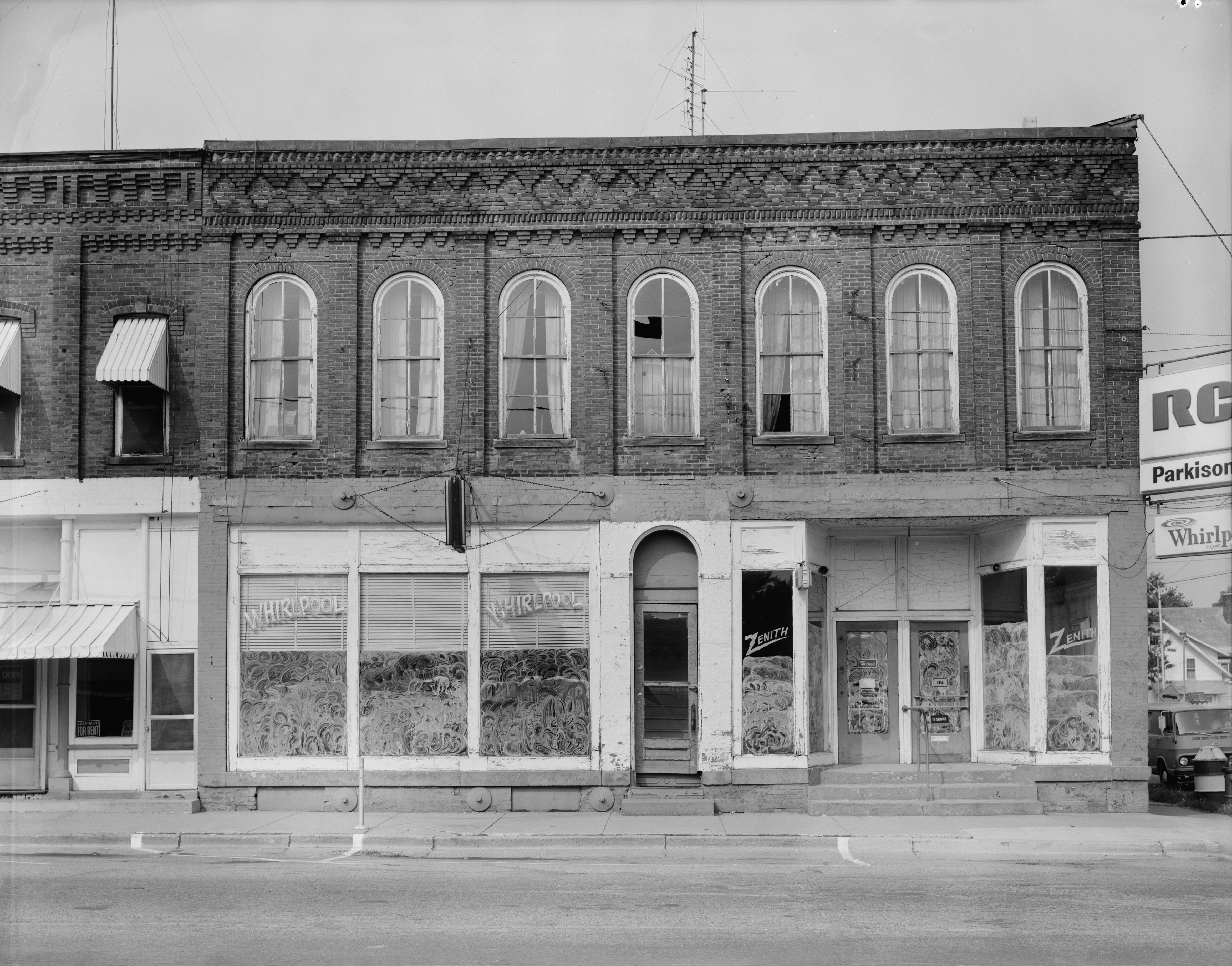 Front of the Butler Masonic Lodge, located at 100 S. Broadway (State Road 1) in Butler, Indiana, United States. Built circa 1870, it is part of the Downtown Butler Historic District, which is listed on the National Register of Historic Places.